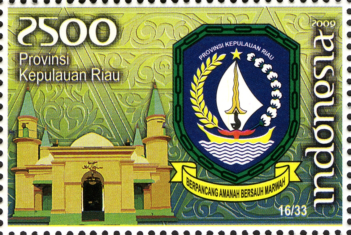 Stamps of Indonesia